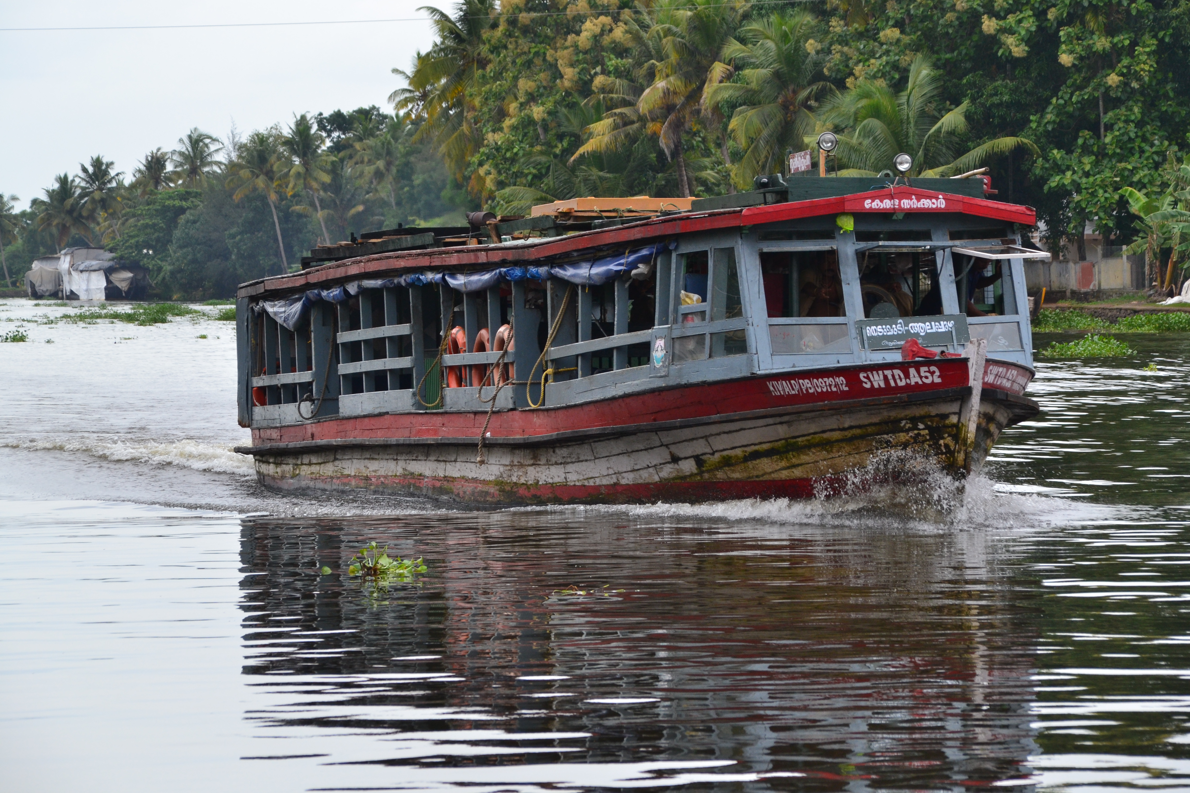 This is a image of public water transport organised by Kerala State Transport Agency for the convenience of long distance transport within the back waters of Kerala (India)